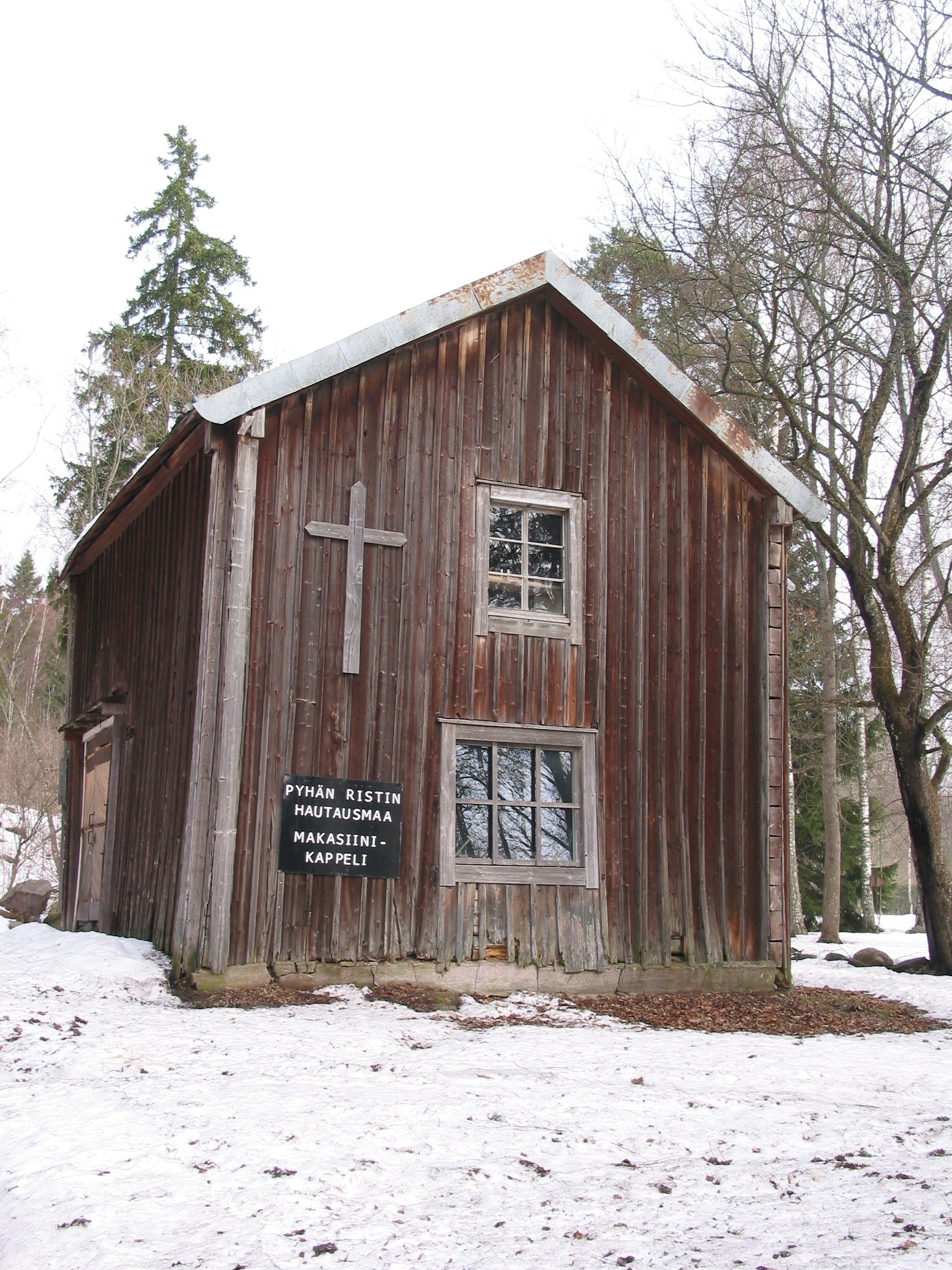 Chapel of the Saint Cross, Karjalohja, Finland